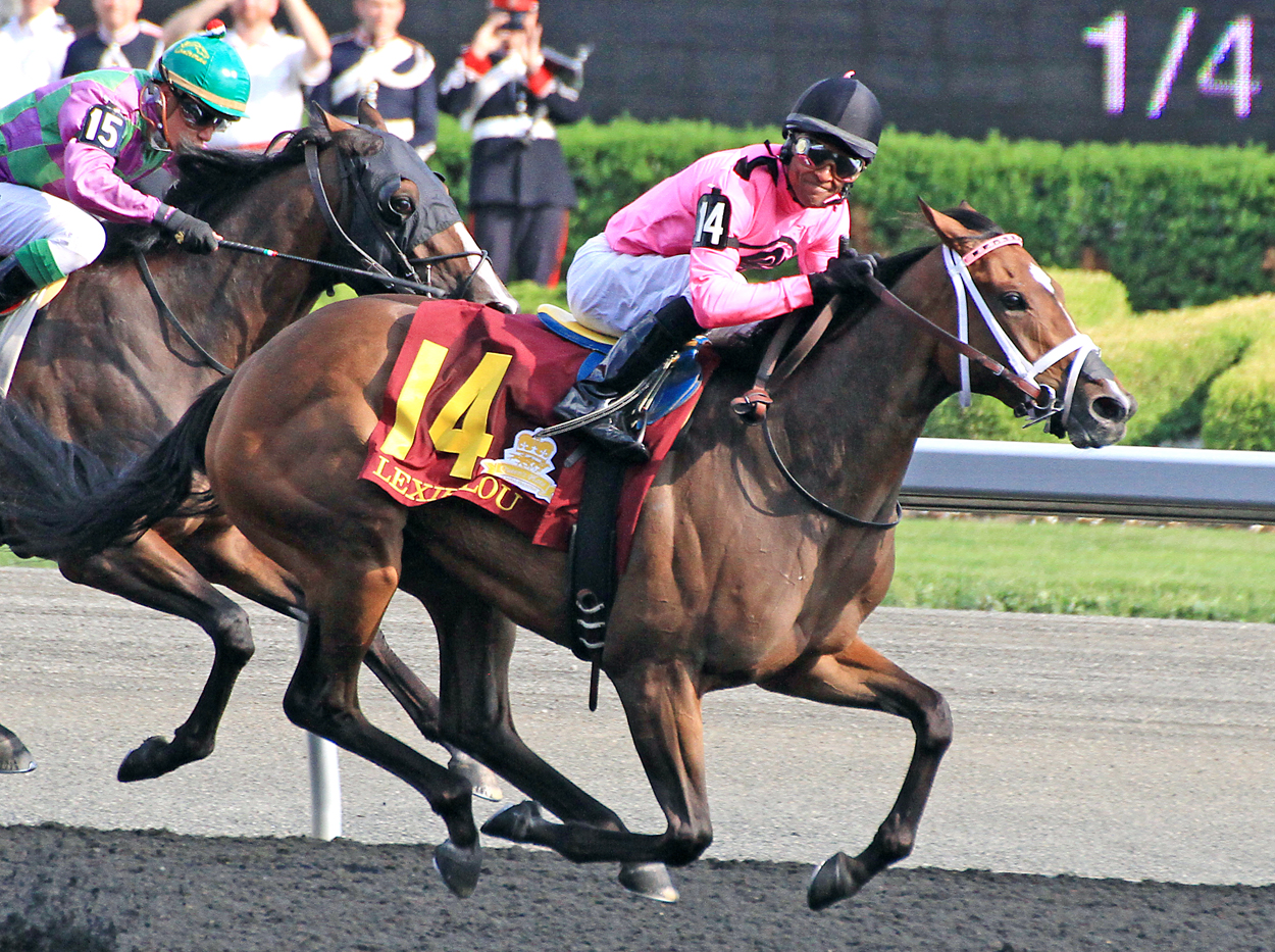 Canadian thoroughbred race horse Lexie Lou crossing the Woodbine Racetrack finish line to win the 155th running of the Queen's Plate on July 6, 2014. Photographed by Mike F. Campbell (User:76wins).